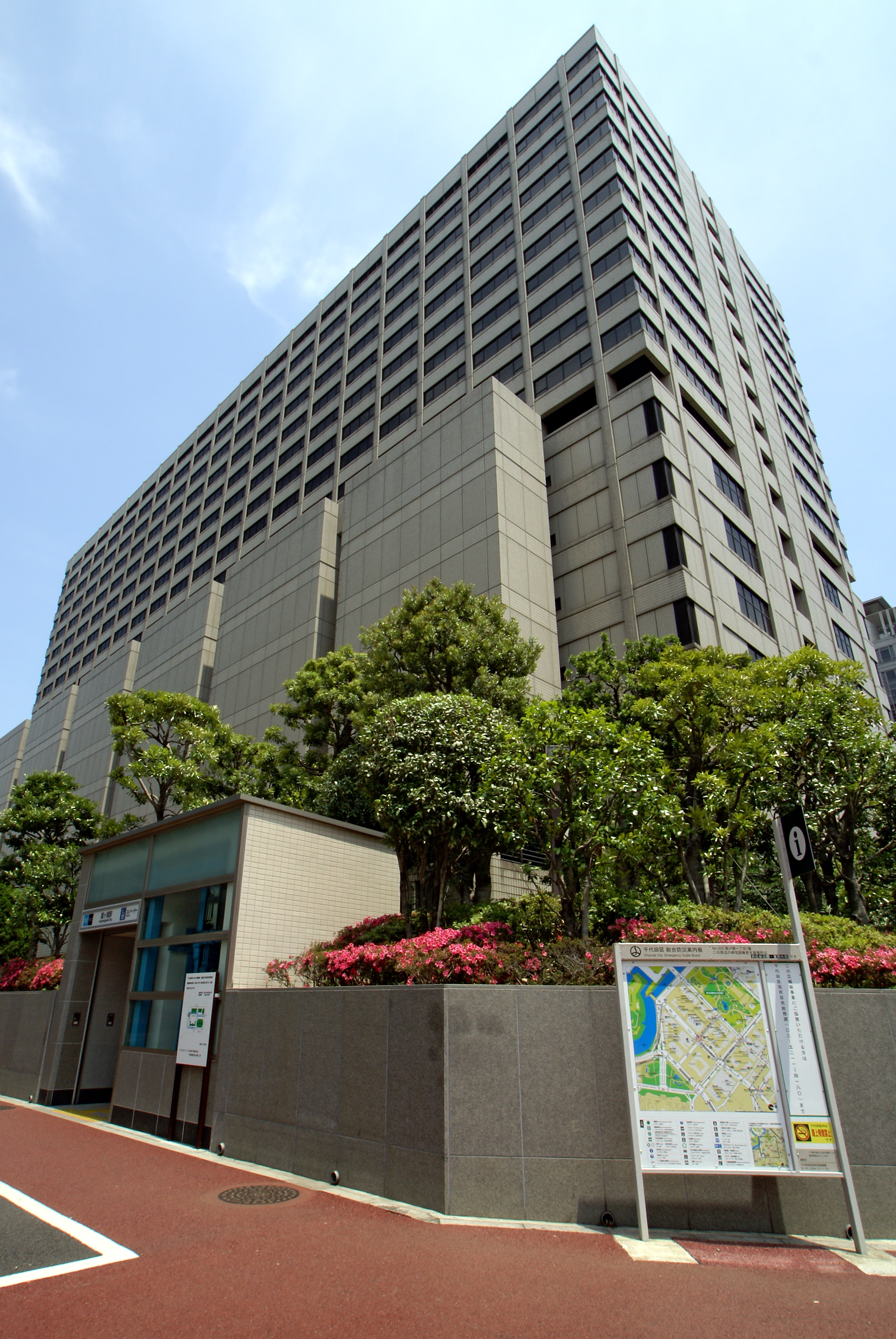 Tokyo High Court in Chiyoda-ku, Tokyo, Japan